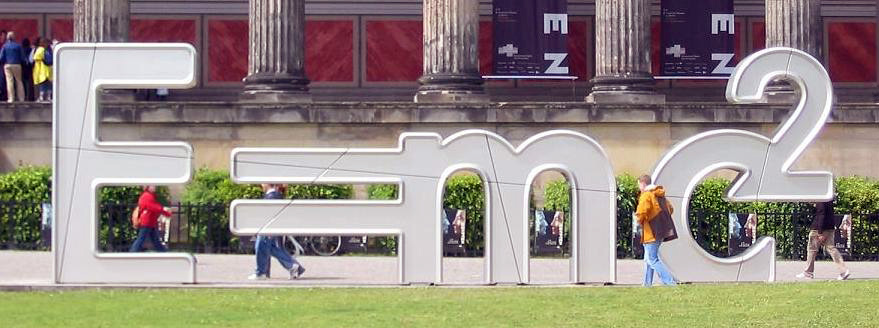 "Relativity", the sixth and last sculpture of the Walk of Ideas in Berlin, on the occasion of 2006 FIFA World Cup Germany. The sculpture was unveiled 19 May 2006 in Lustgarten. The Altes Museum (Old Museum), built between 1825 and 1828 by Schinkel, is visible in the background.